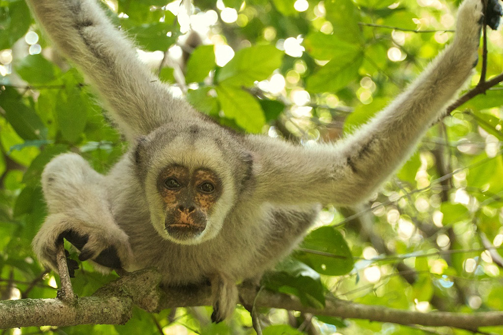 Northern Muriqui (Brachyteles hypoxanthus)